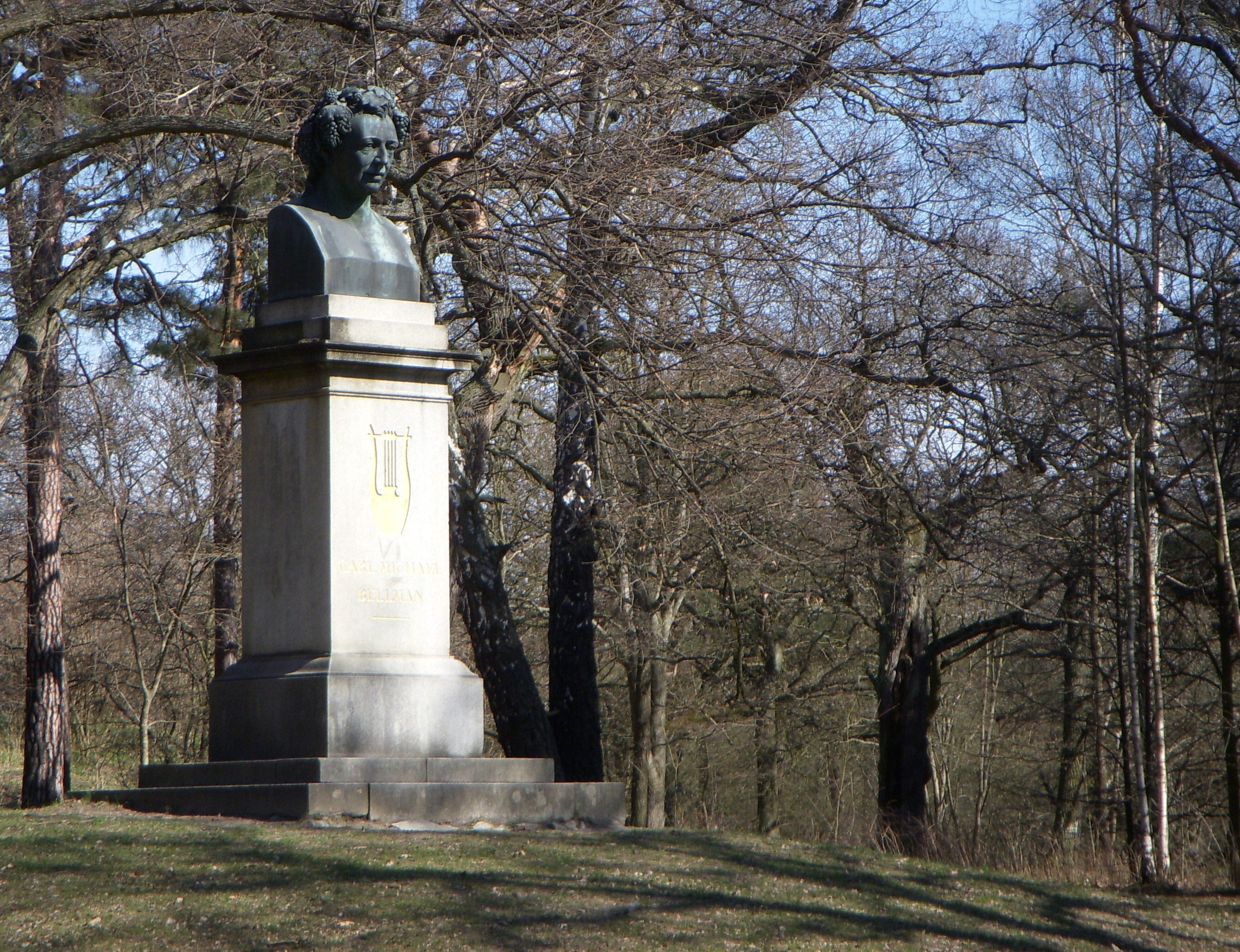 Bust of Carl Michael Bellman (1740–1795) by Johan Niclas Byström (1783–1848), erected 1829 in Bellmansro on Djurgården in Stockholm, Sweden